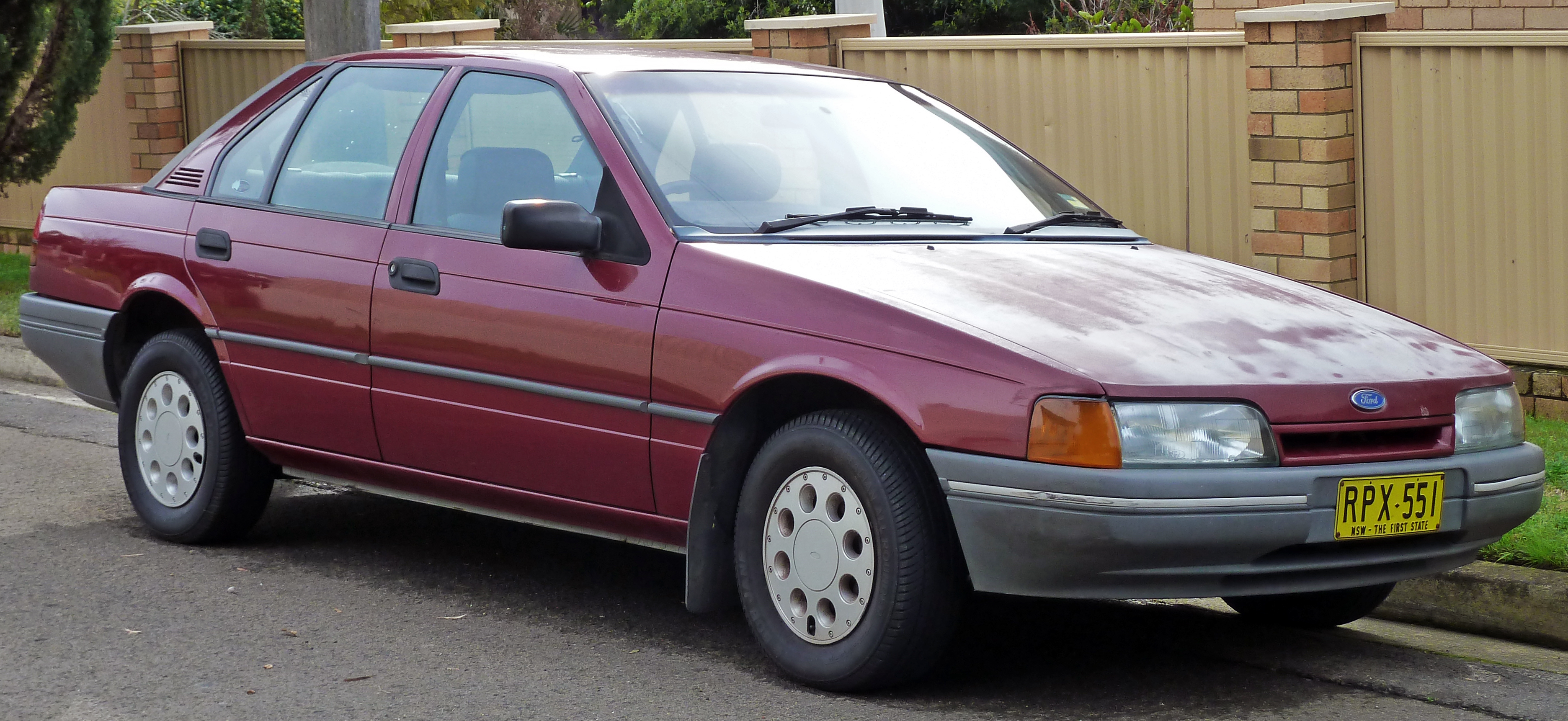 1989 Ford Falcon (EA II) GL sedan. Photographed in Blakehurst, New South Wales, Australia.